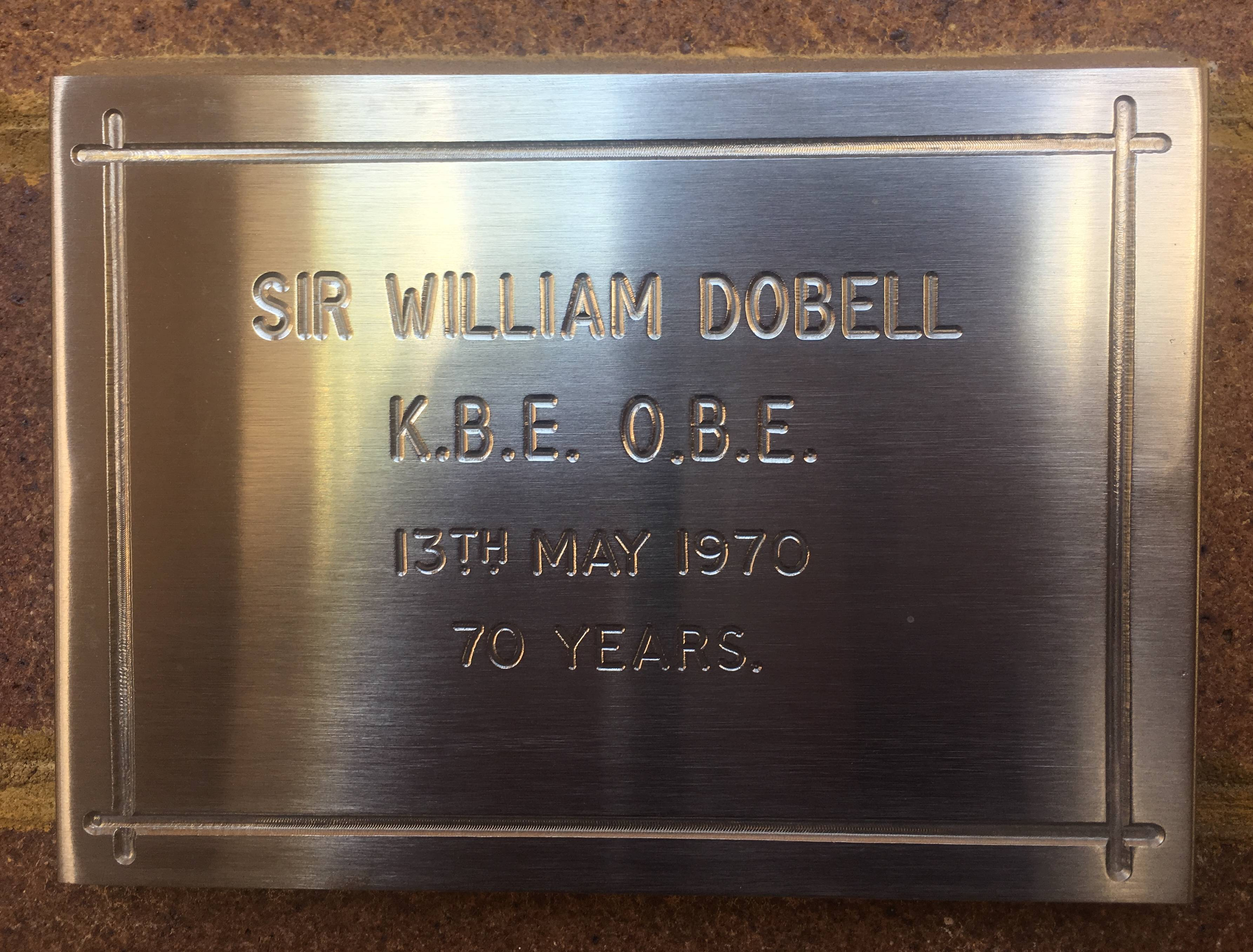 Memorial plaque for Sir William Dobell at Newcastle Memorial Park in Beresfield, Australia.